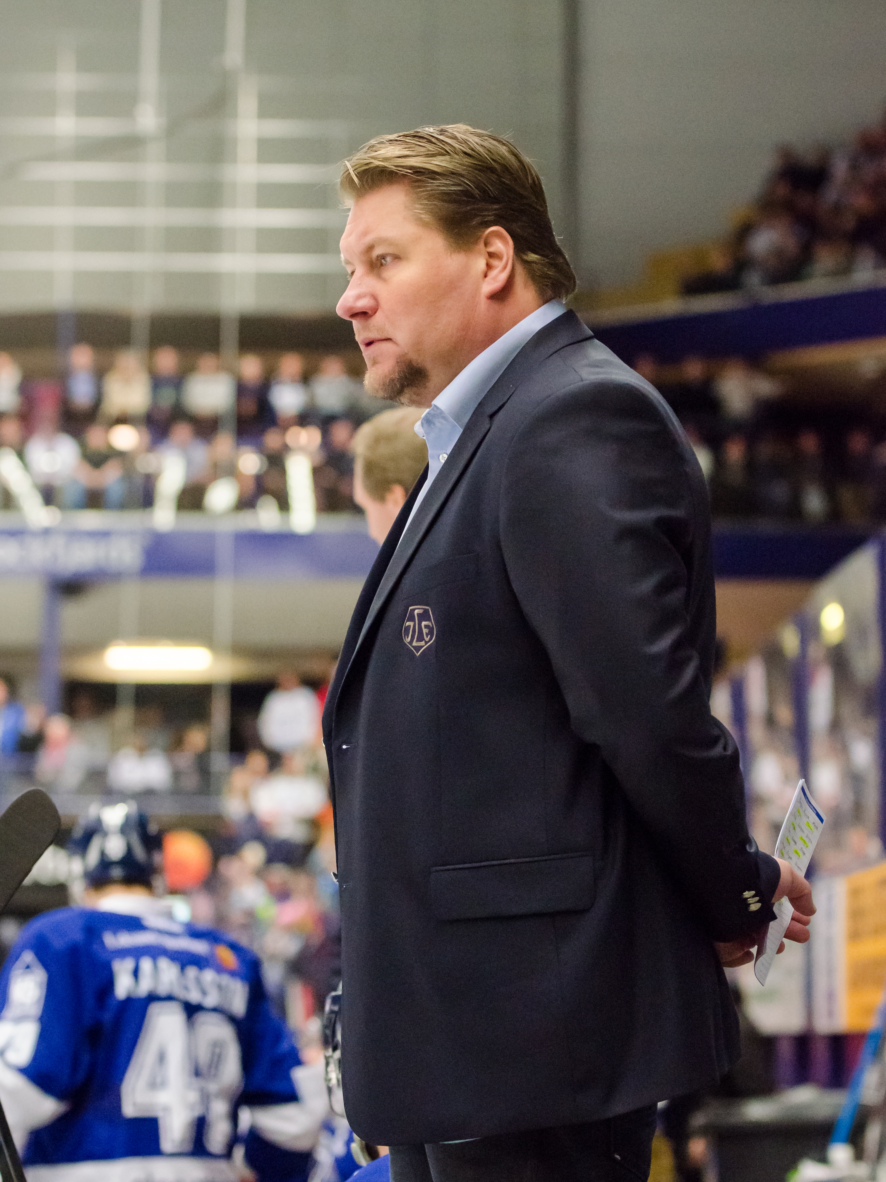 Andreas Appelgren, head coach of Leksands IF in Hockeyallsvenskan (Swedish second league) against Mora IK 2012-12-29.